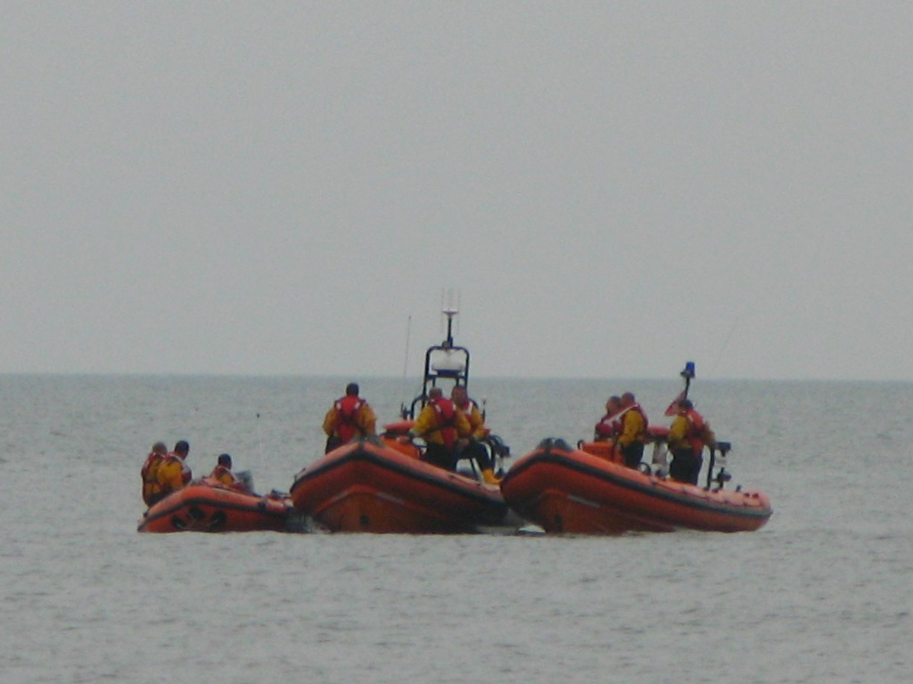 The crews of three RNLI inshore lifeboats plan their operations. From left to right: ILB1 D712 Christine from Minehead; Atlantic 85 B824 Richard and Elizabeth Deaves from Minehead; Atlantic 75 B795 Staines Whitfield from Burnham-on-Sea.